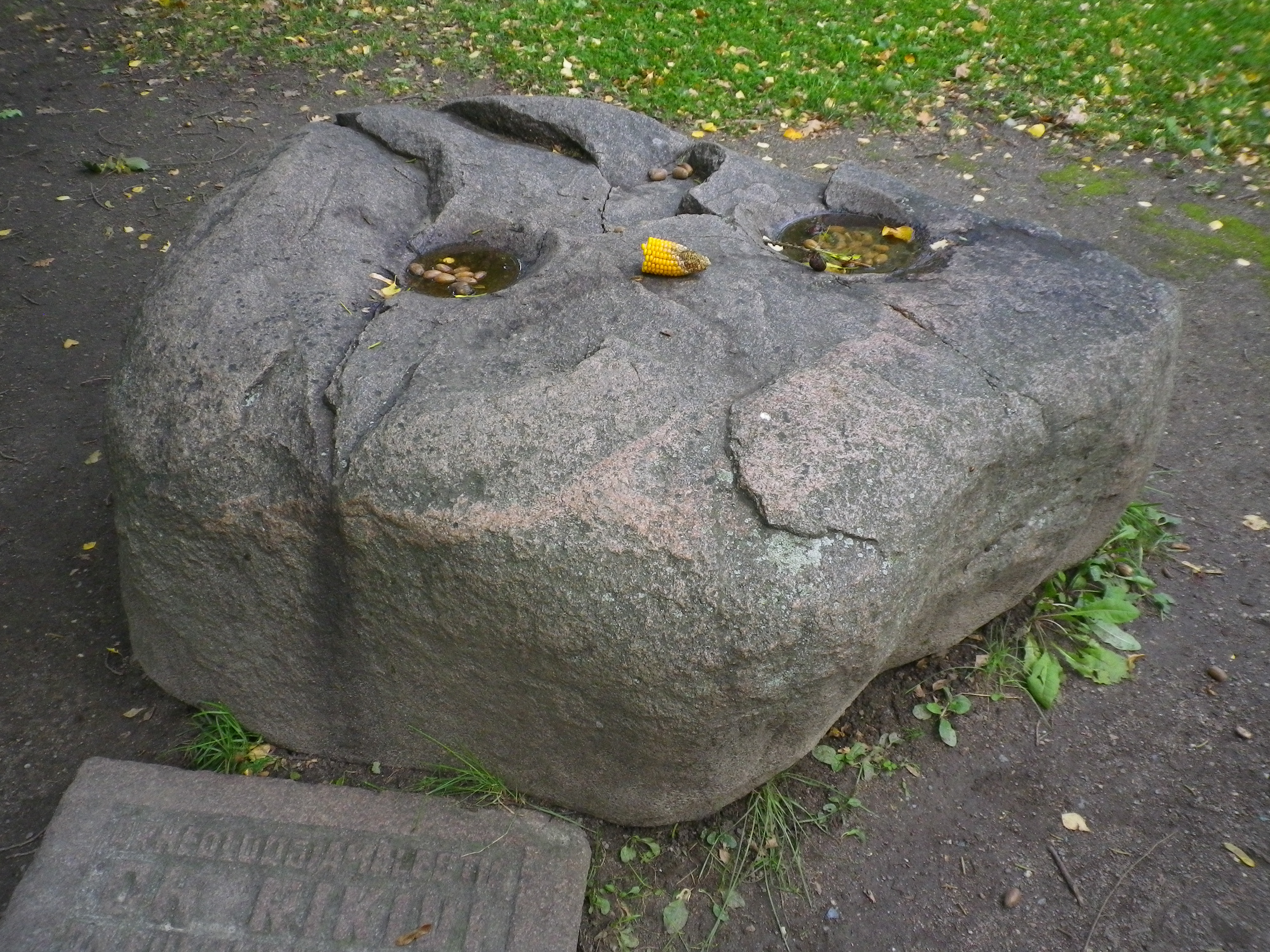 Sacrificial stone on Toome Hill in Tartu